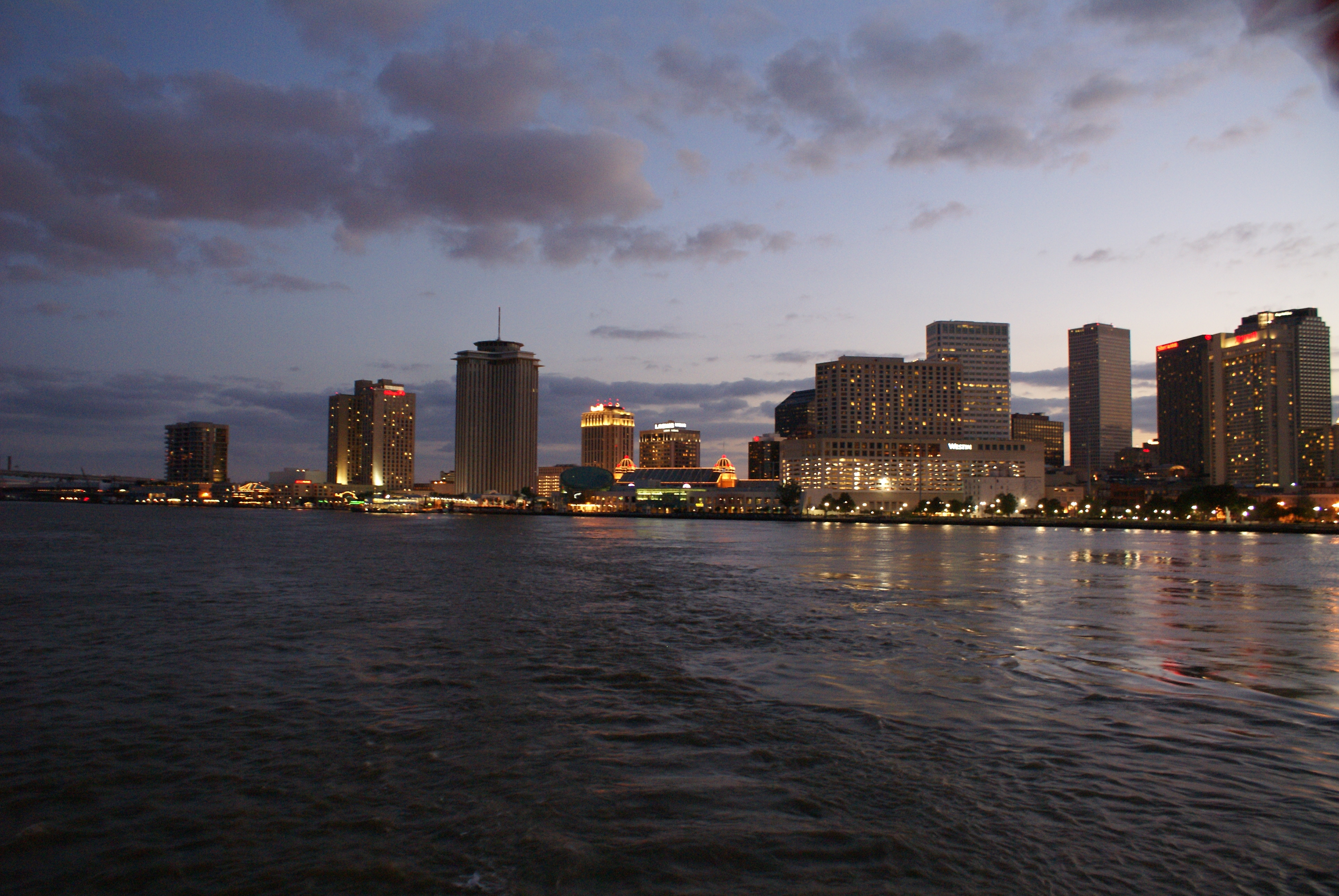 New Orleans -- Riverfront Central Business District skyline seen from the Mississippi just down river.